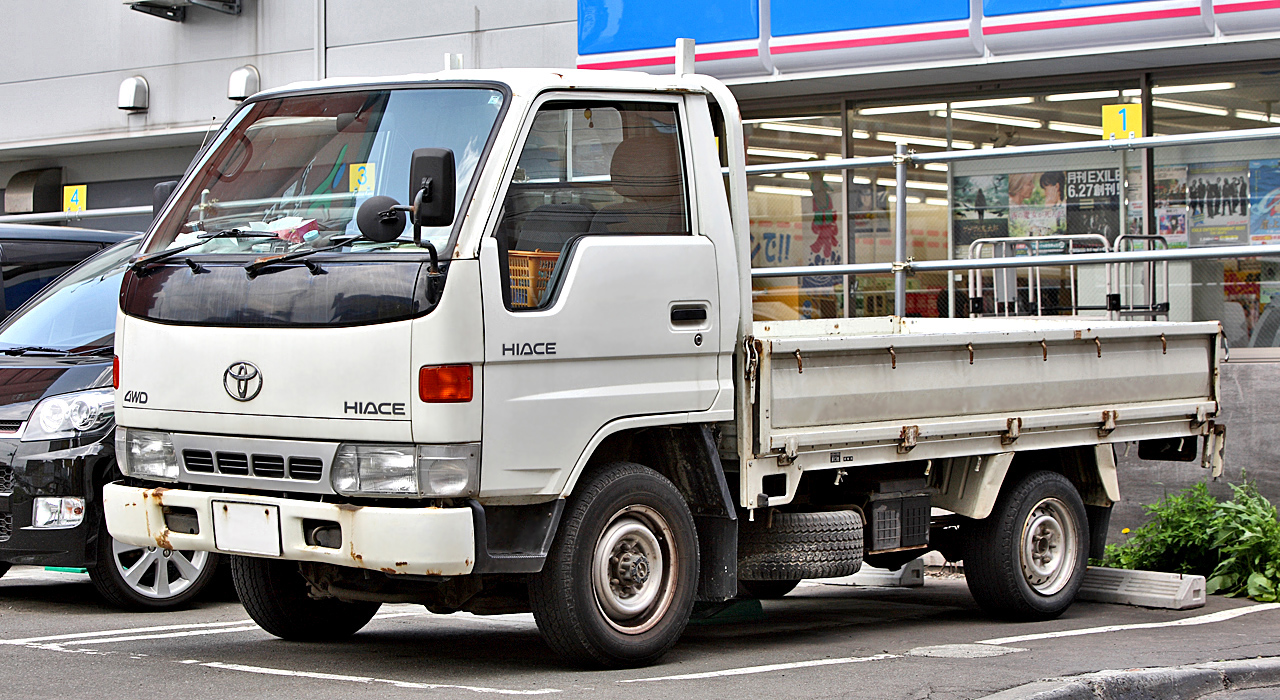 Toyota Hiace Truck 4WD 3.0D Super Single Just Low ( LY162 )